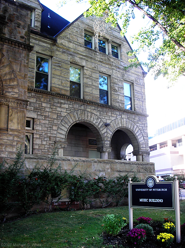 The Music Building at the University of Pittsburgh. photo by Michael G White